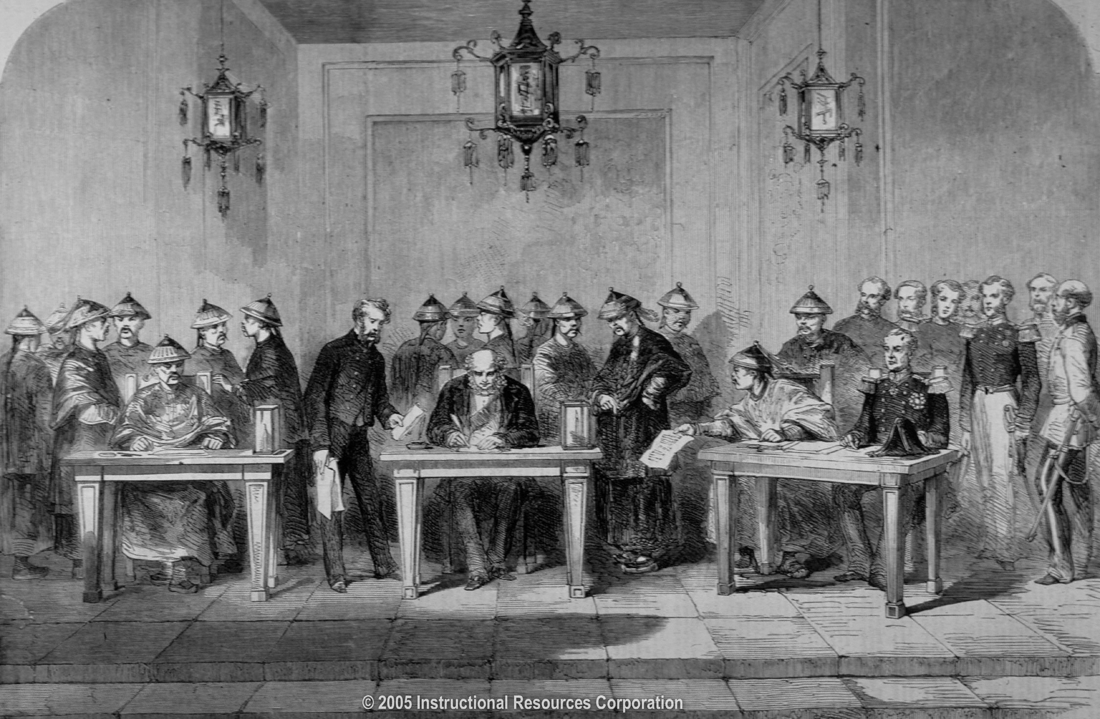 Signing of the Treaty of Tianjin. The attenders from the left are Hwa-Sha-Na (花沙納), The Earl of Elgin, Kwei-Leang (桂良)